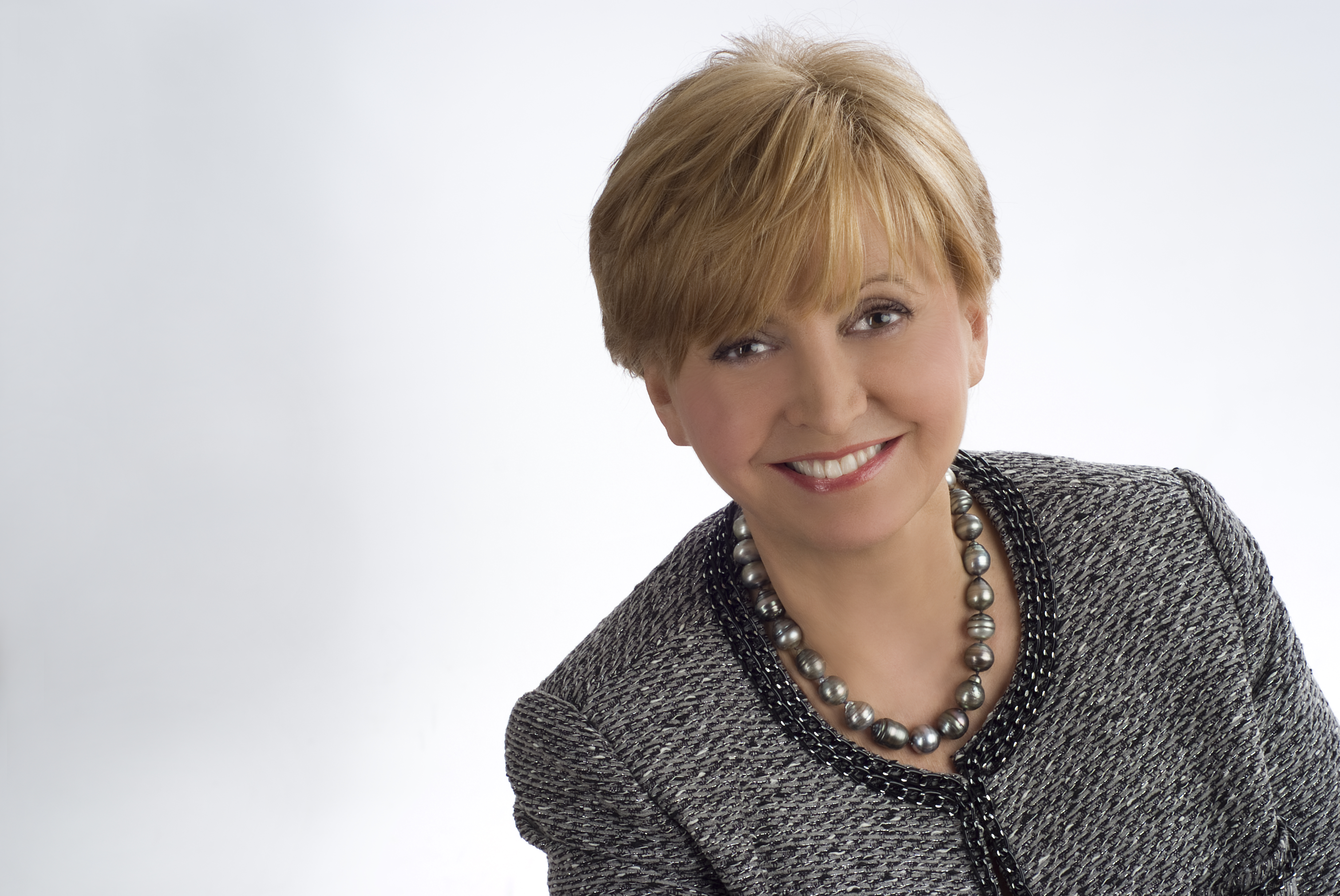 Dr Hedvig Hricak